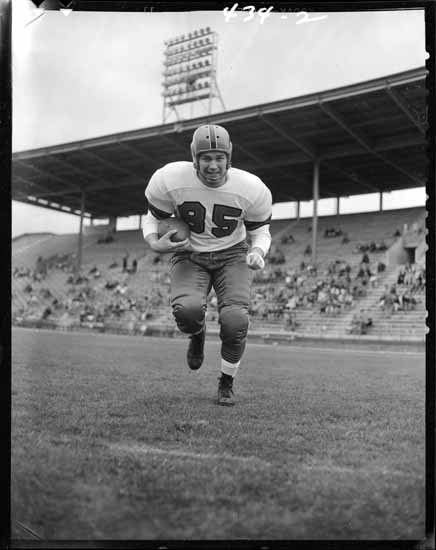 B.C. Lions football club, portraits, individual players, Don Hollingsworth VPL Accession Number: 84780T Date: July 10, 1954 Photographer / Studio: Jones, Art Content: Part of a series 84780+ (63 photos) Topic: Sports Sports teams Football Football players Stadiums Costume Sports uniforms Location: British Columbia - Vancouver Copyright Restrictions: Public Domain